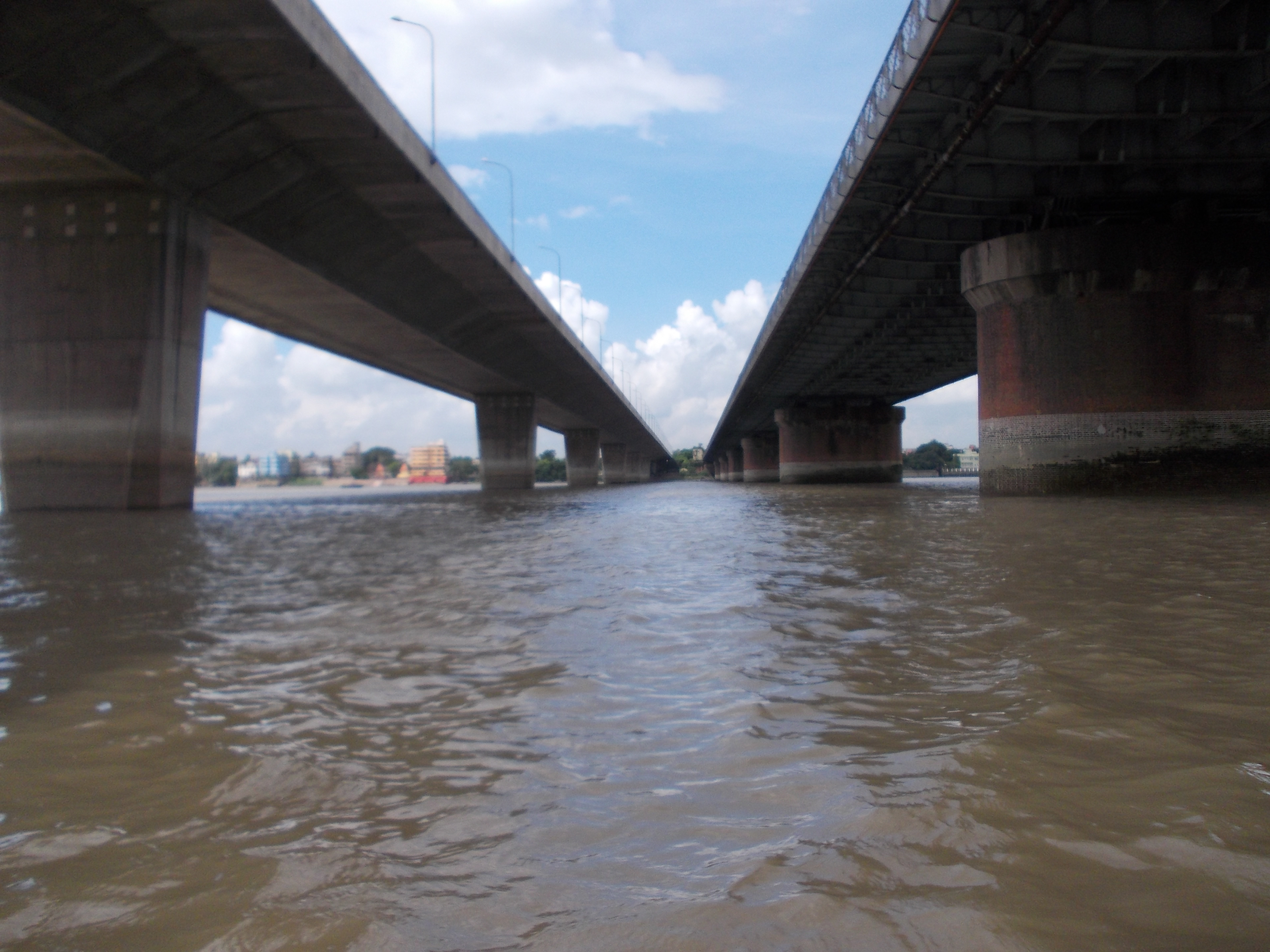 Nivedita setu and Vivekananda setu as seen from Hooghly river